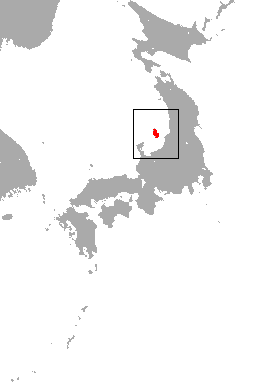 Sado Mole (Mogera tokudae) range